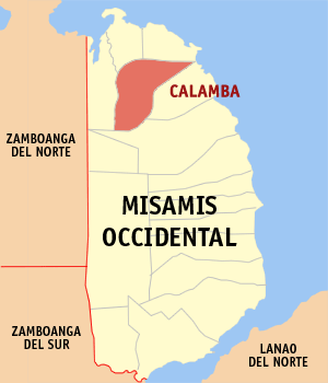 Map of the Misamis Occidental showing the location of Calamba